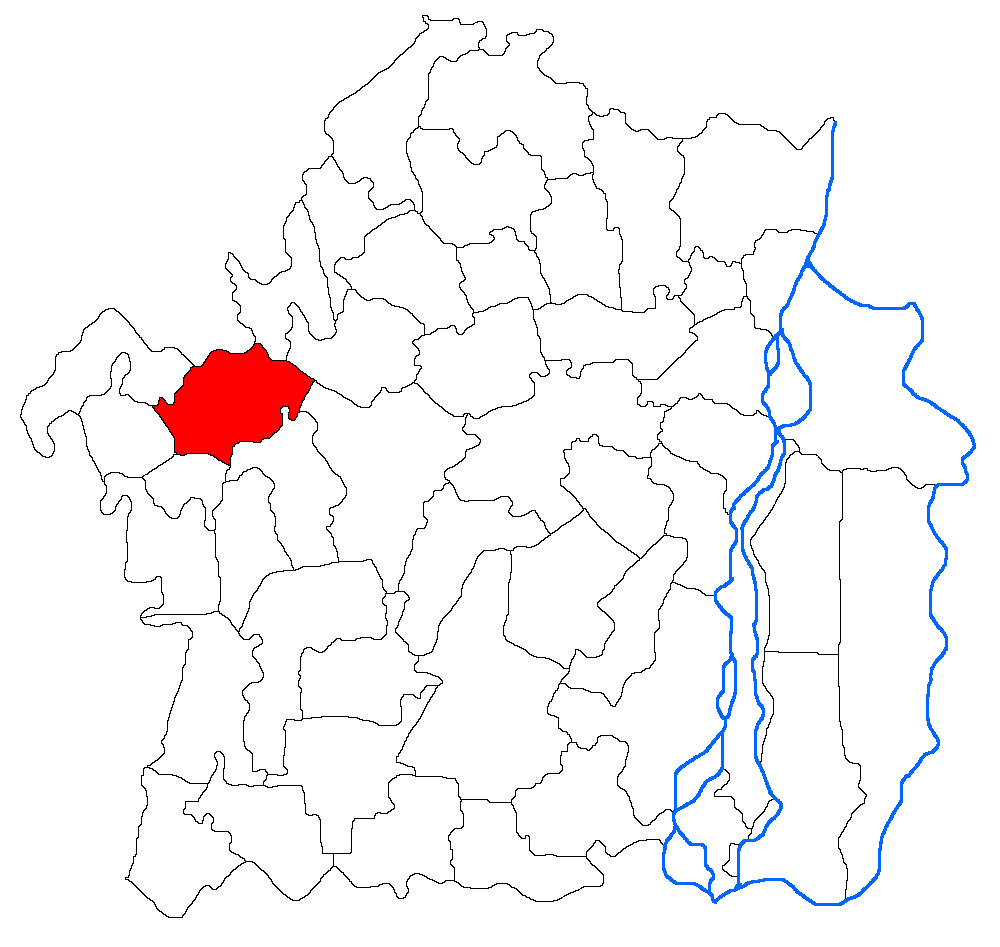 Limits of the commune of Vişani in Brăila County, Romania